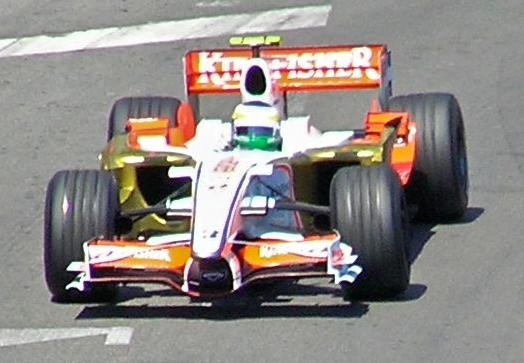 Giancarlo Fisichella (source incorrect) driving for Force India at the 2008 Monaco Grand Prix.